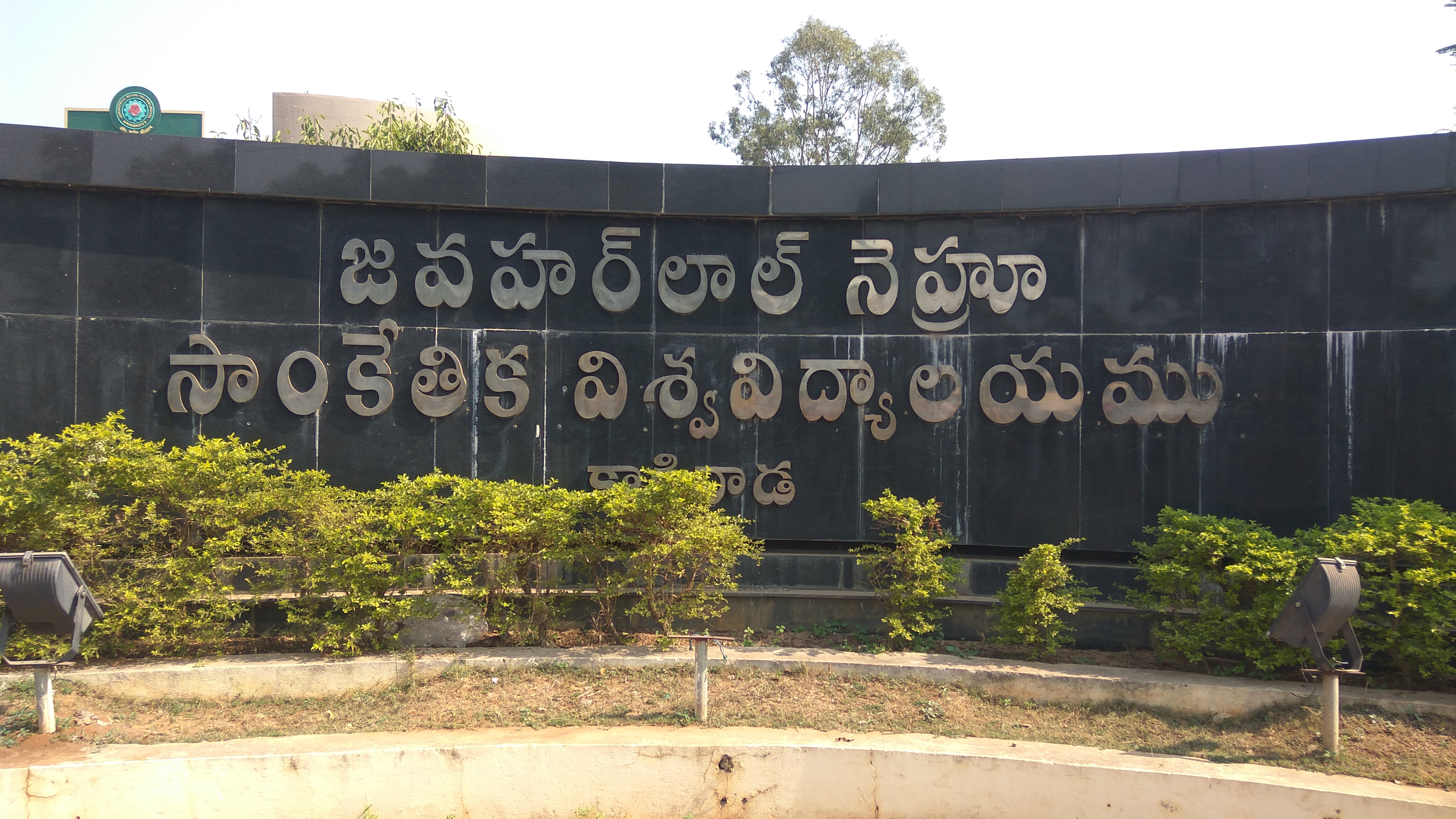 JNTU Kakinada Main Gate